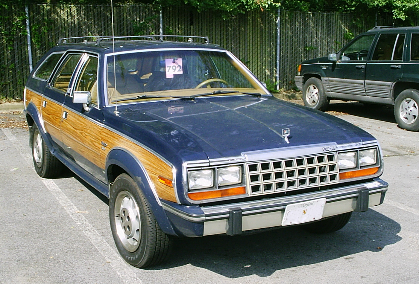 American Motors (AMC) Eagle Wagon with 258 CID (4.2 L) straight-six engine, five-speed manual transmission, and all-wheel-drive. Picture taken at Courtesy Jeep in Rockville, Maryland, USA.